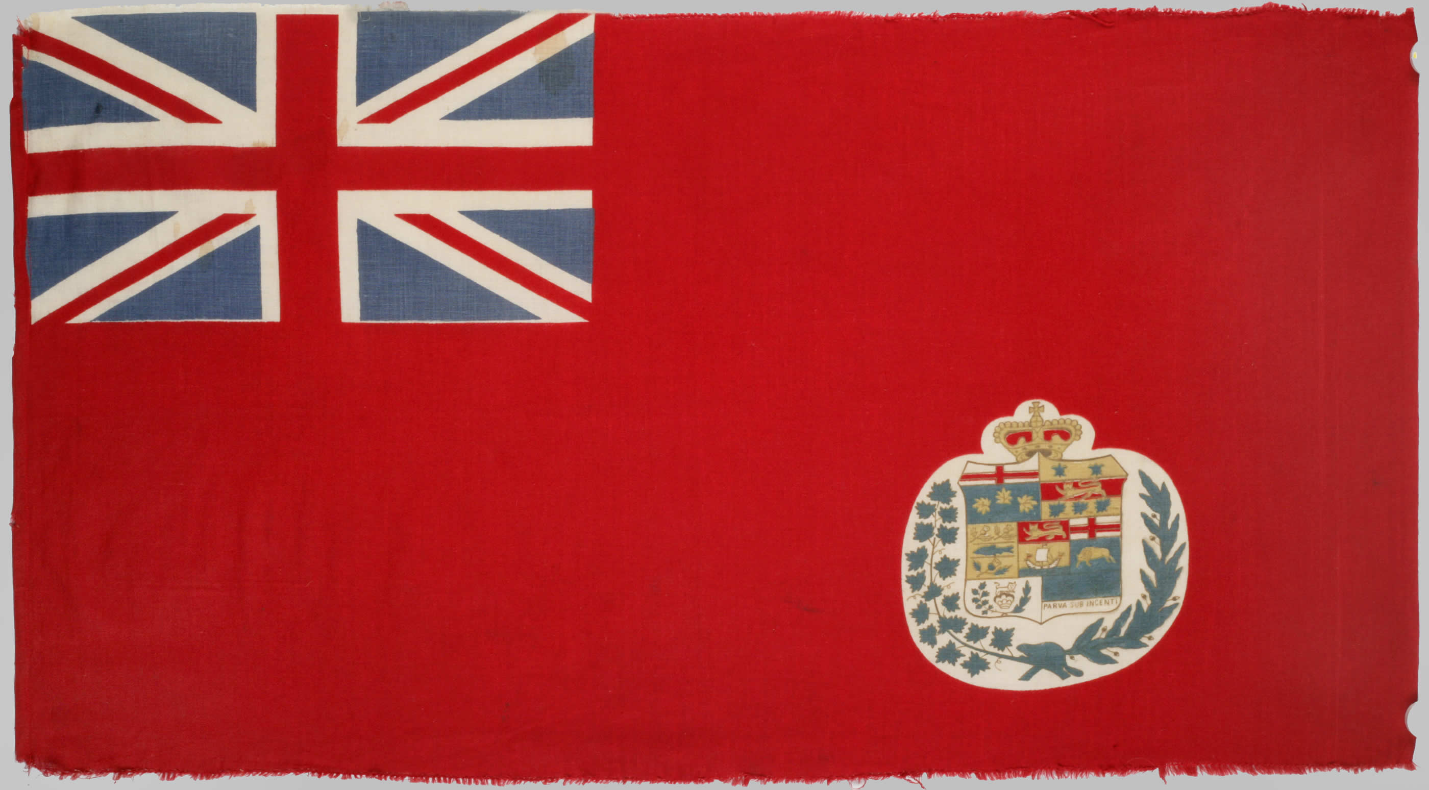 Canadian Ensign 1870-1898